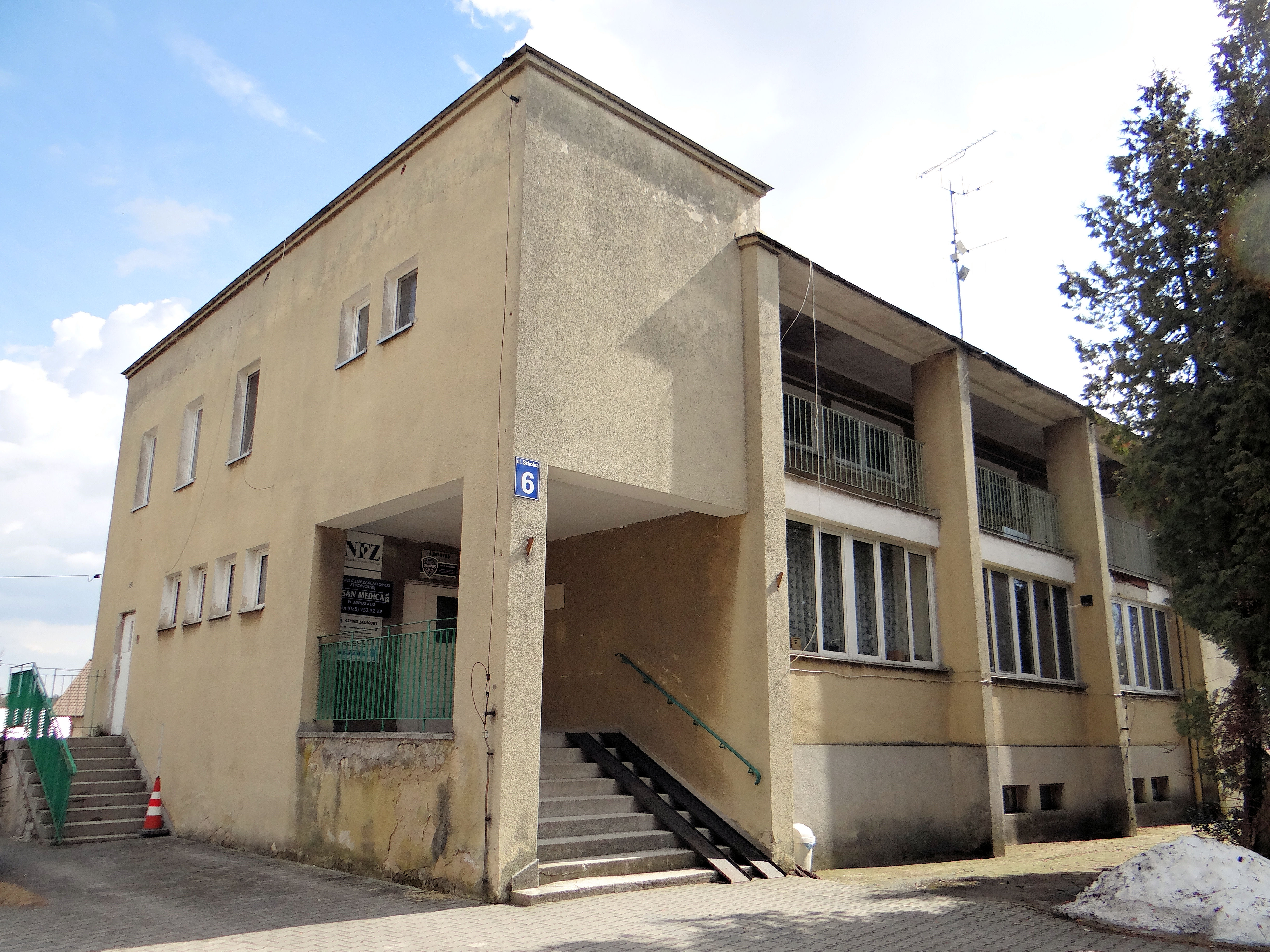 Clinic in Jeruzal (powiat miński)